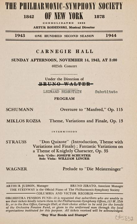 Program of the New York Philharmonic's concert under Leonard Bernstein at Carnegie Hall on 14 November 1943